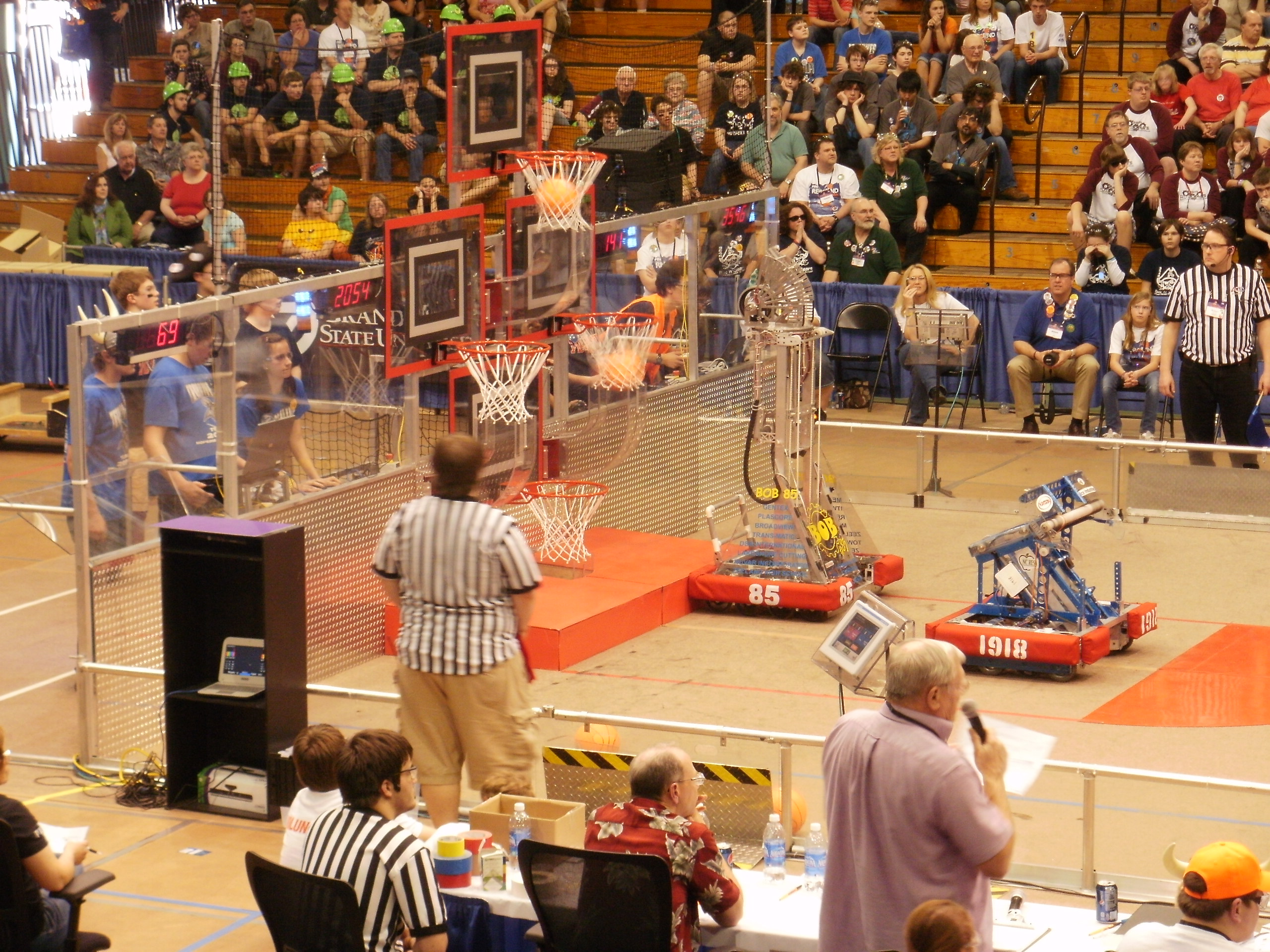 2012 FIRST Robotics Competition game Rebound Rumble showing teams 85 and 1918 scoring baskets.